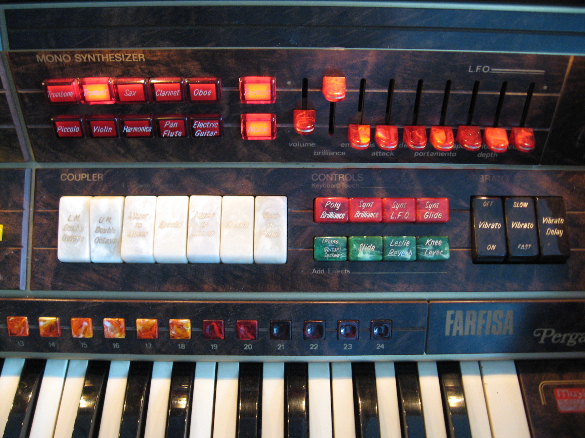 Farfisa Pergamon "Synthesizer"